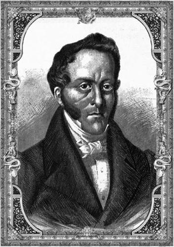 Self-portrait of Manuel Gómez Pedraza y Rodríguez, Lithograph (1870-1907).